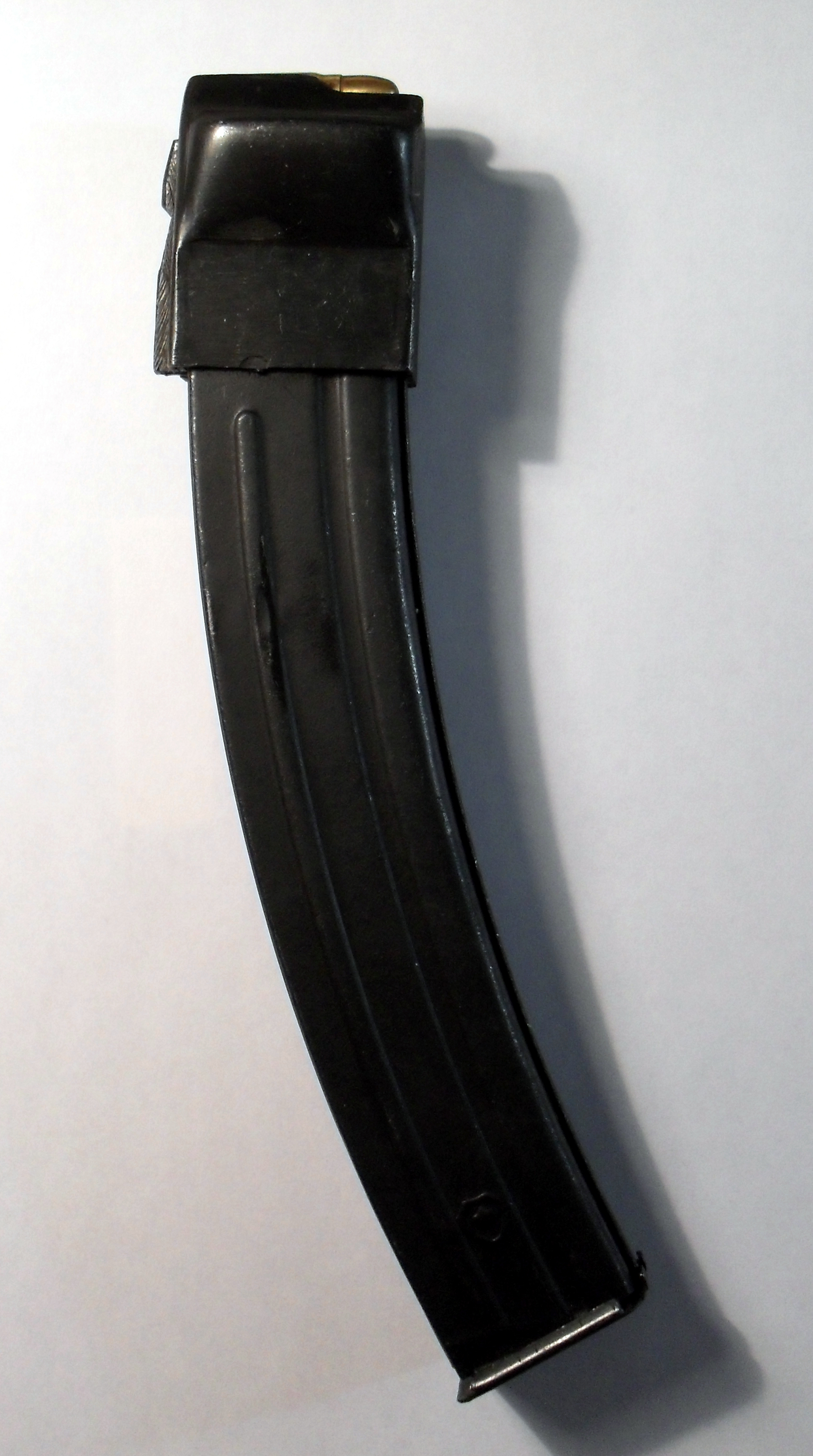 PPSh submachine gun magazine.